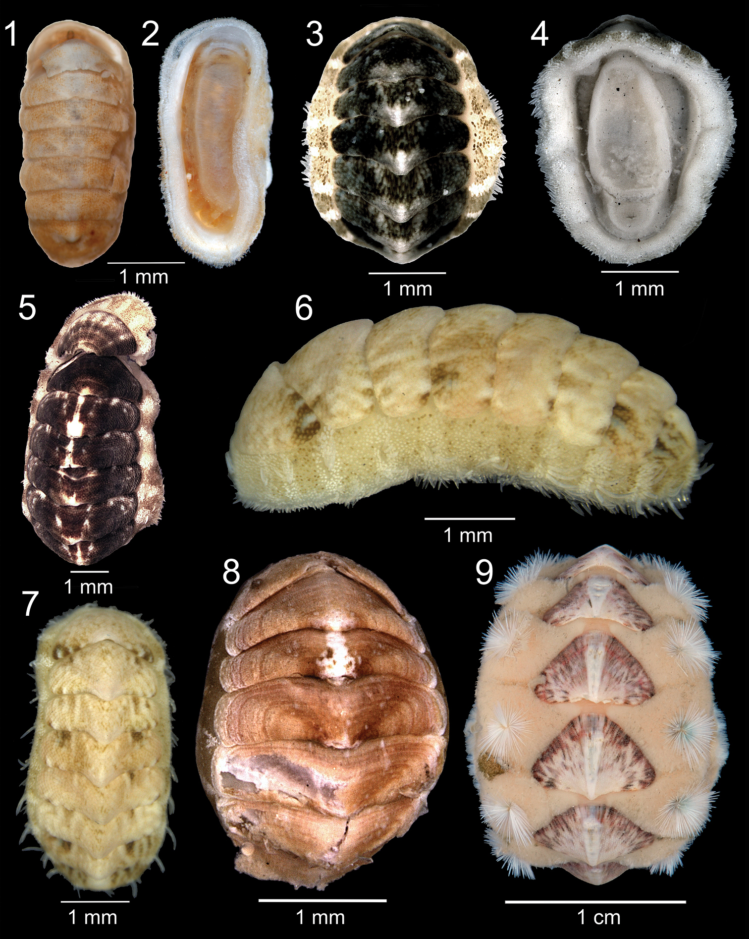 1 Shallow polyplacophorans from the Azores. 1–2 Hanleya hanleyi (Bean in Thorpe, 1844) [See also species category], DBUA 551 (Flores, Porto da Baleia) 3–4 Lepidochitona cf. canariensis (Thiele, 1909) [See also species category and genus category], DBUA 356 (Formigas Islets, intertidal) 5 Lepidochitona piceola (Shuttleworth, 1853) [See also species category], DBUA 743 (São Miguel Island, Baía do Rosto do Cão, intertidal) 6–7 Lepidochitona simrothi (Thiele, 1902) [See also species category], DBUA 459 (Pico, Lajes do Pico, intertidal) 8 Tonicella rubra (Linnaeus, 1767) [See also species category], DBUA 891 (D. João de Castro seamount, 20 m depth) 9 Acanthochitona fascicularis (Linnaeus, 1767) [See also species category], DBUA 667 (Pico, Lajes do Pico, 0–6 m depth).